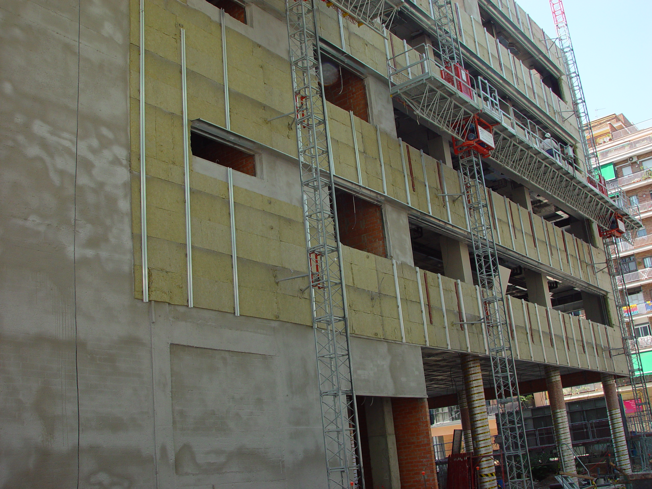 Photography of building insulated with stone wool